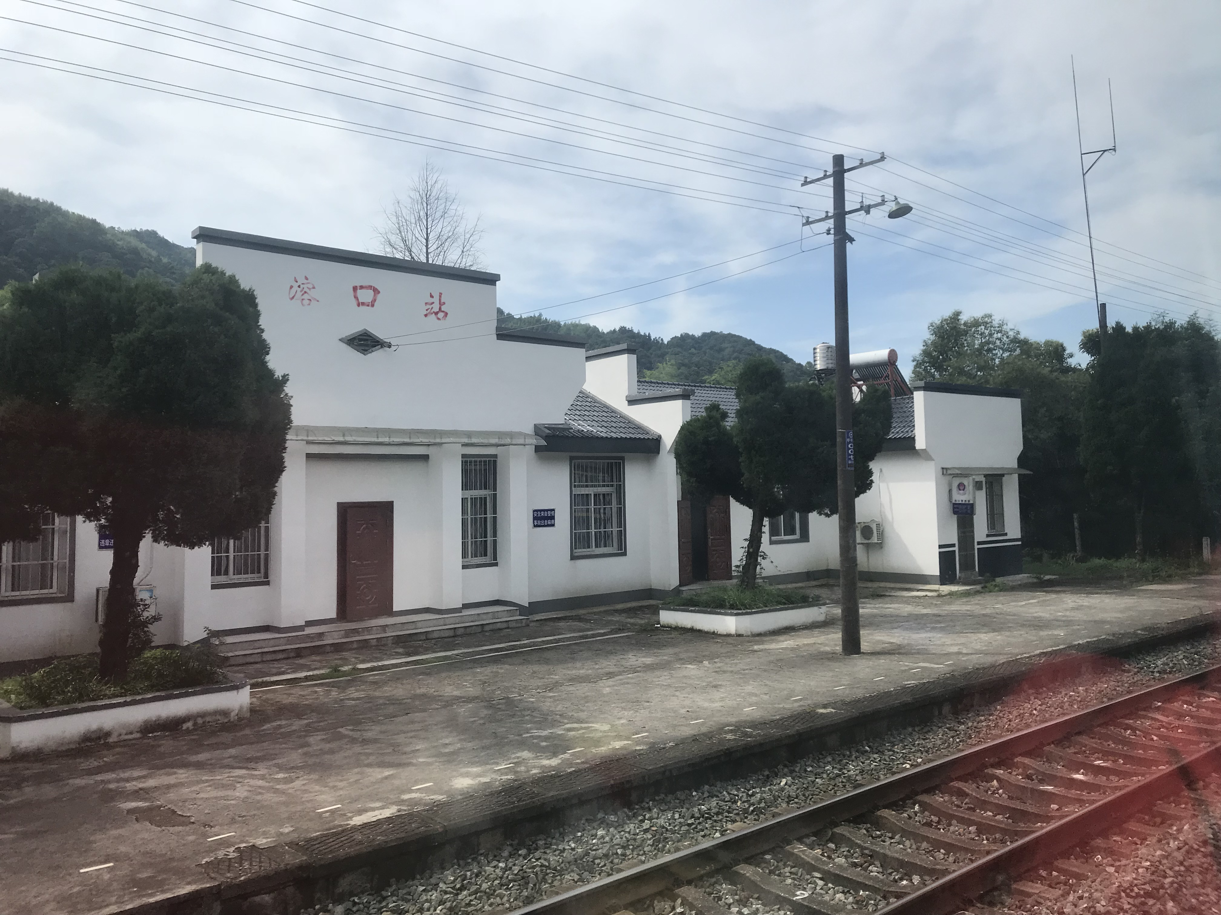 201806 Station Building of Rongkou Station